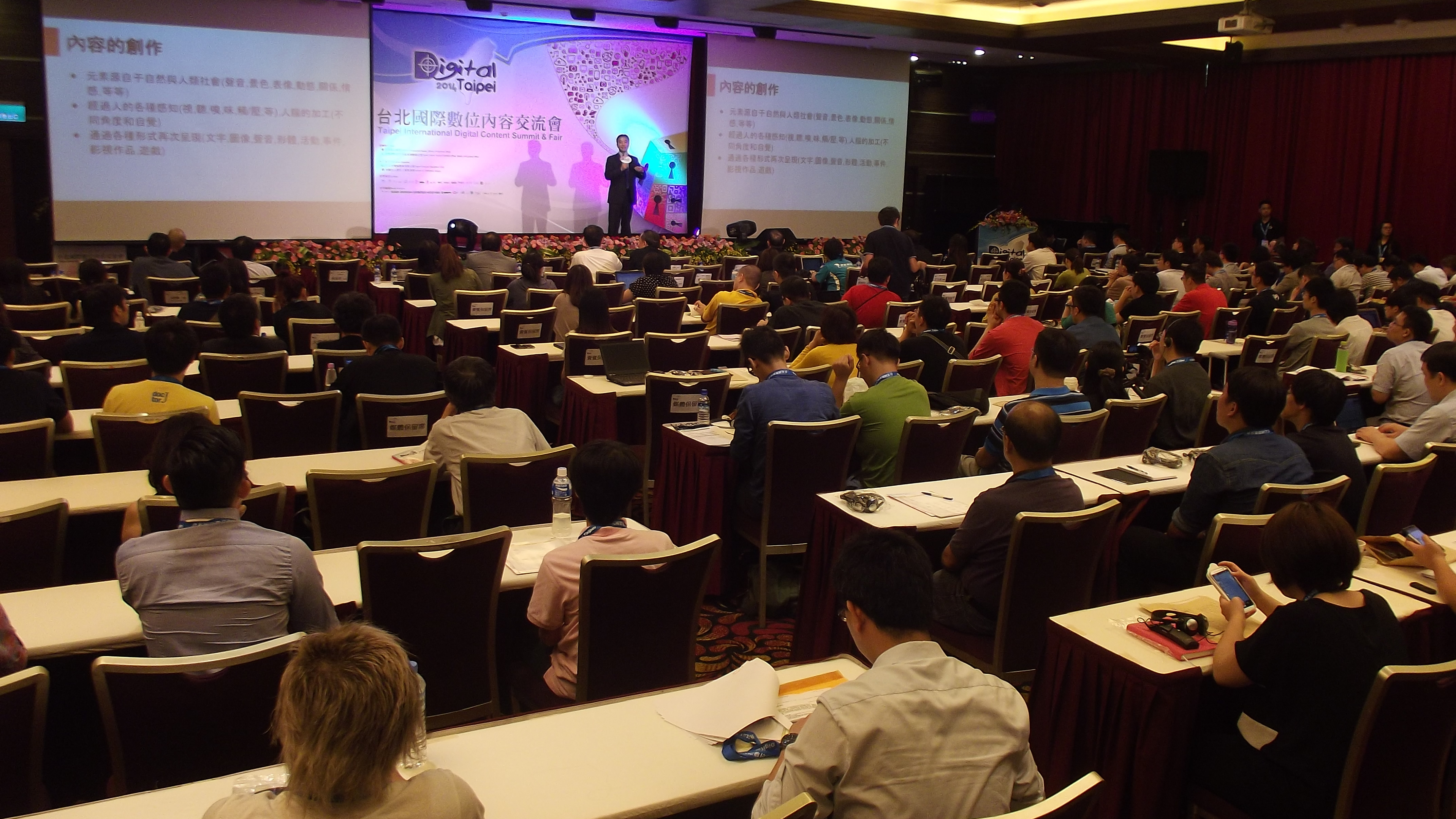 2014 Digital Taipei Opening Keynote at NTUH International Convention Center.